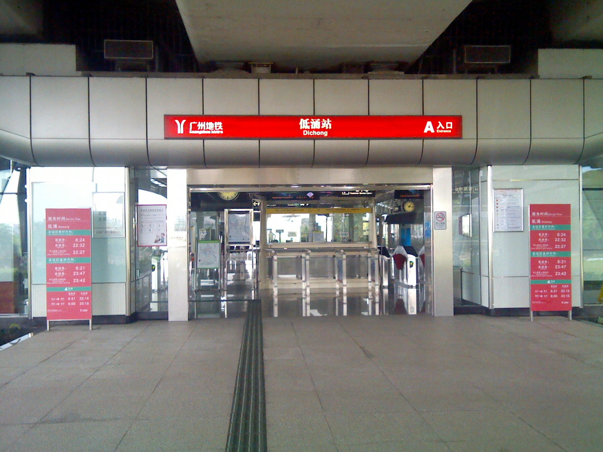 低涌站A出入口